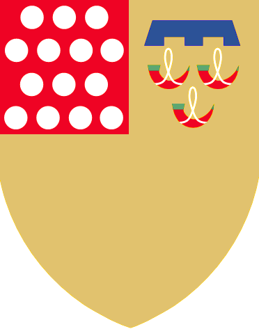 Coat of armes of Perwez, Belgium